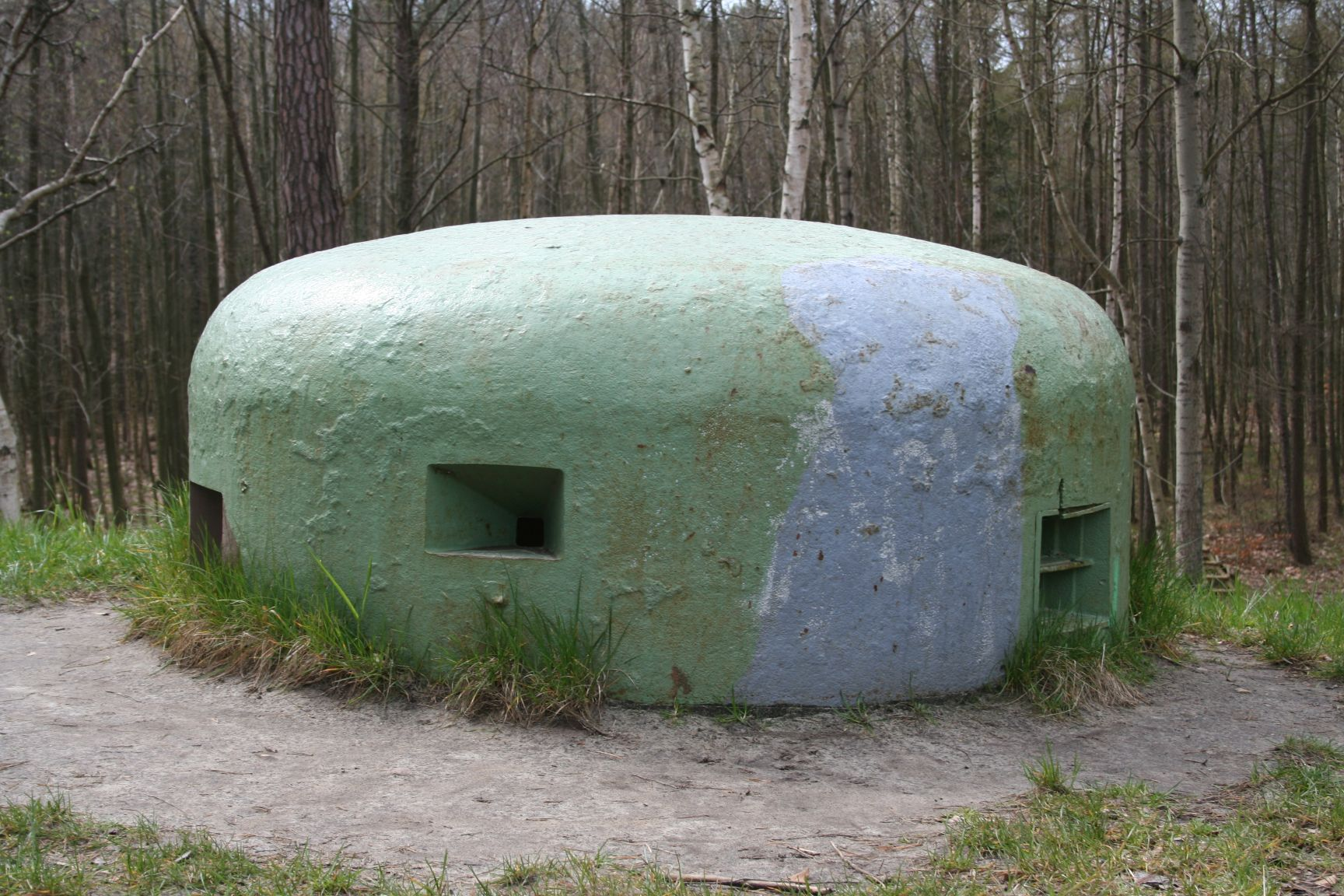 Schron Saragossa, Jastarnia [1]